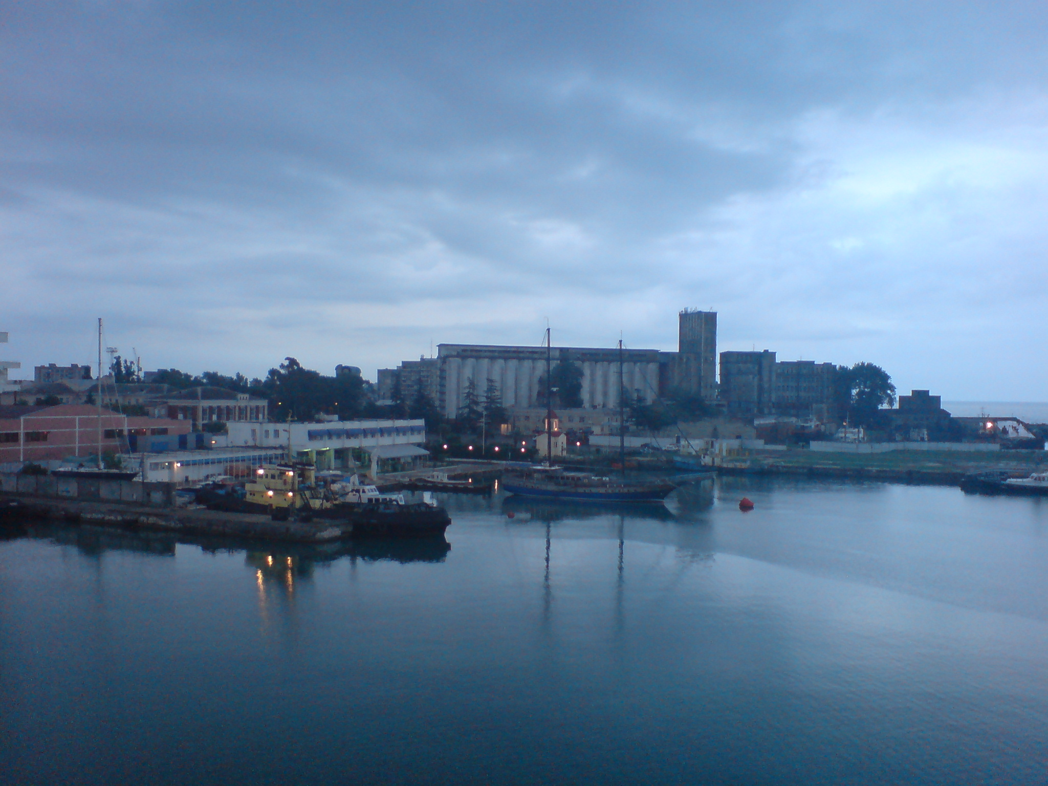 After waiting out on MS Greifswald for 24 hours another morning dawns and we might get off... Watching Georgia lying there for so long without being able to embark was excrutiating. Finally someone hands back our passports and finally someone lets us off the ship when finally someone wakes up and finally has talked to someone who has finally decided to do something about the long wait for the passengers. Apparently the problem was the customs, who's office was closed on weekends...